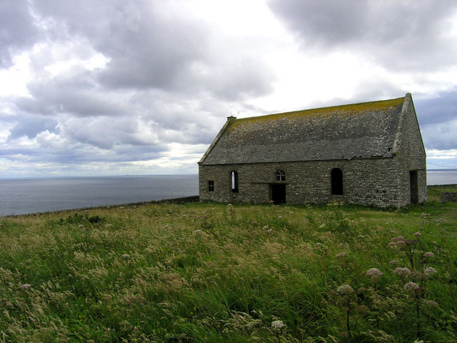 Old Church at Bruan by the cliffs, the new church lies further inland